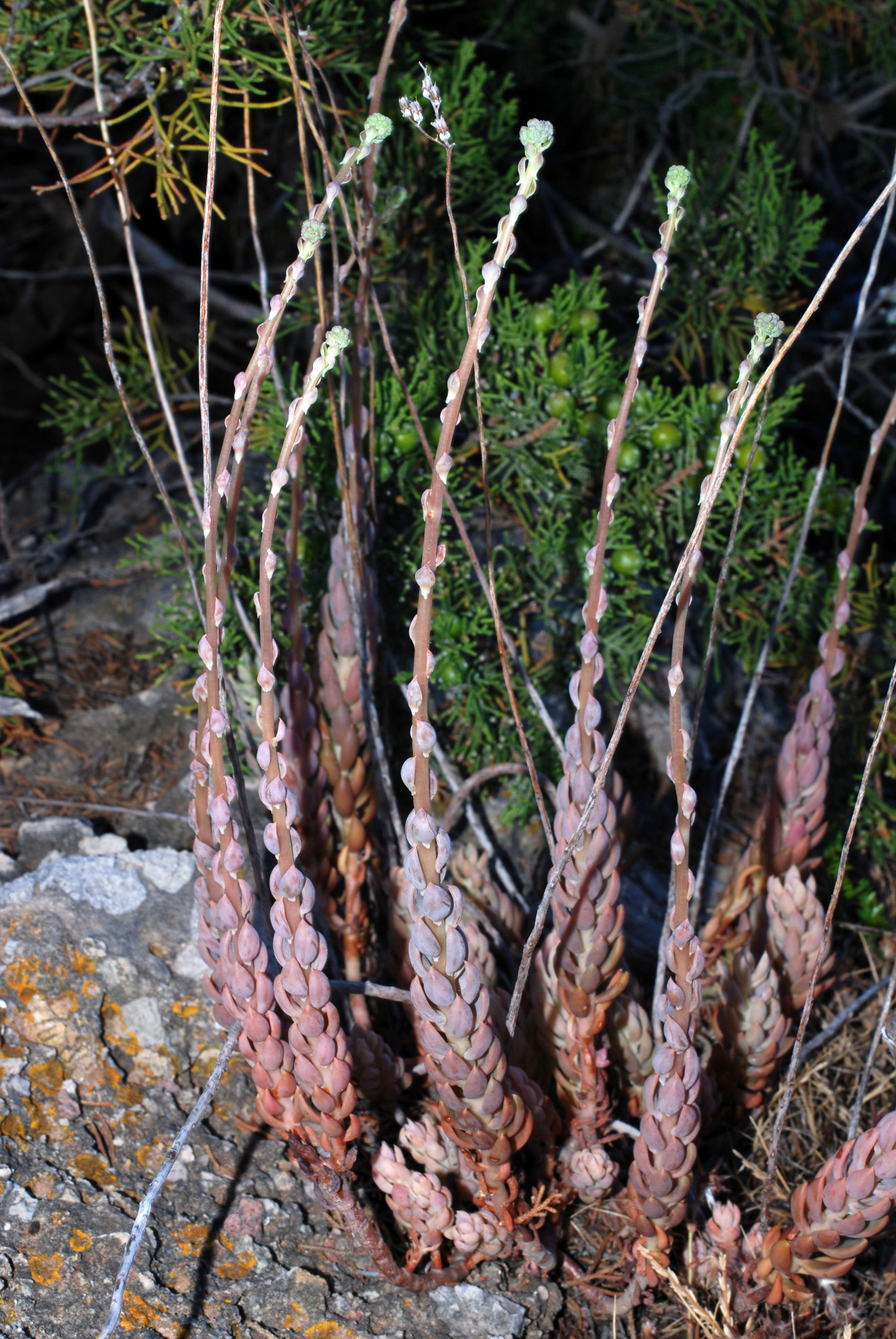 Sedum sediforme, Near Cap Blanc, Ibiza